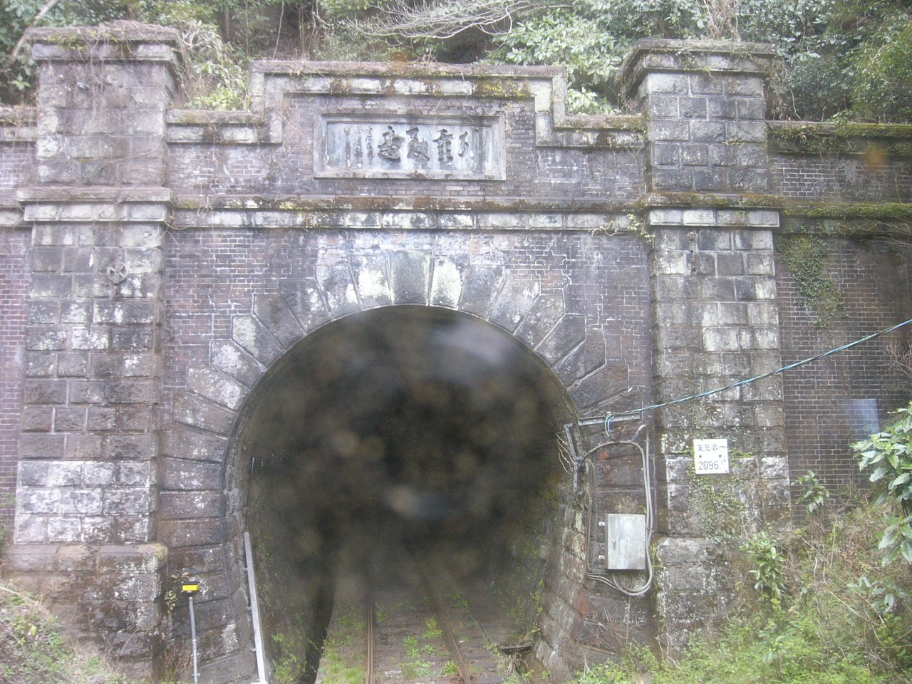 The south side portal of Yatake Daiichi tunnel in JR Kyushu Hisatsu line between Yatake station and Masaki station.